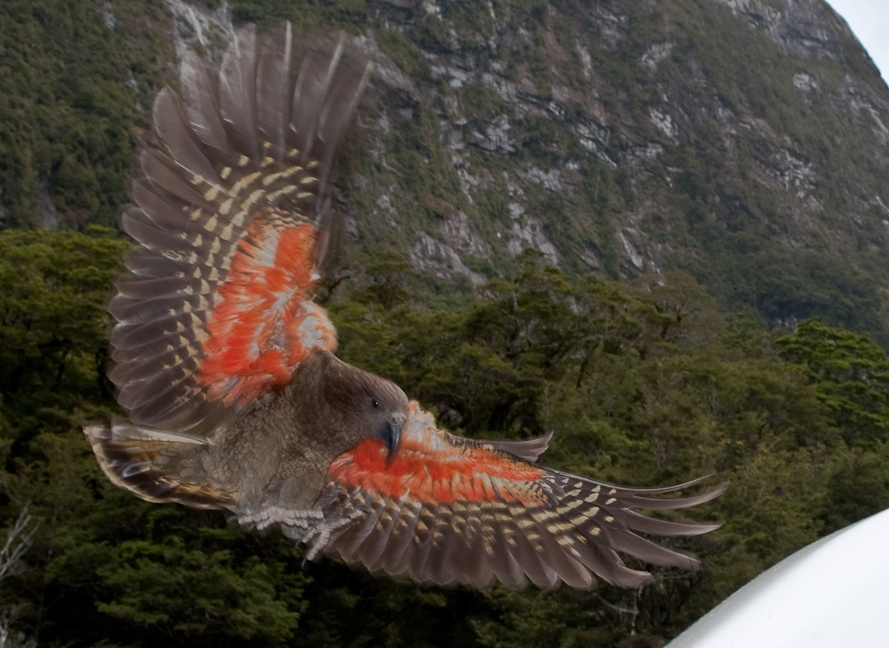 A kea about to land on a white vehicle, with wings outspread showing their orange underside.